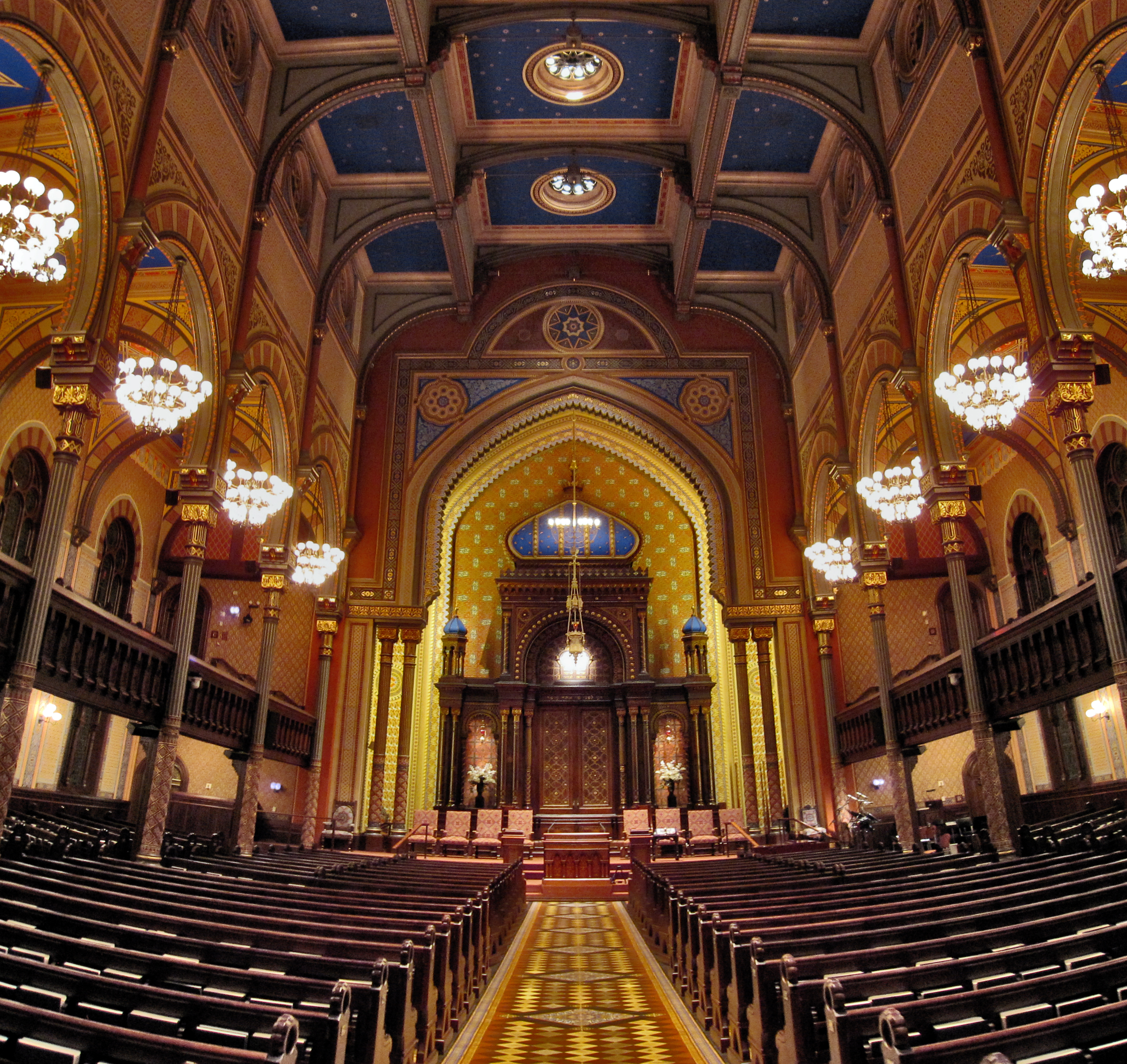 Central Synagogue on Lexington Avenue in New York.